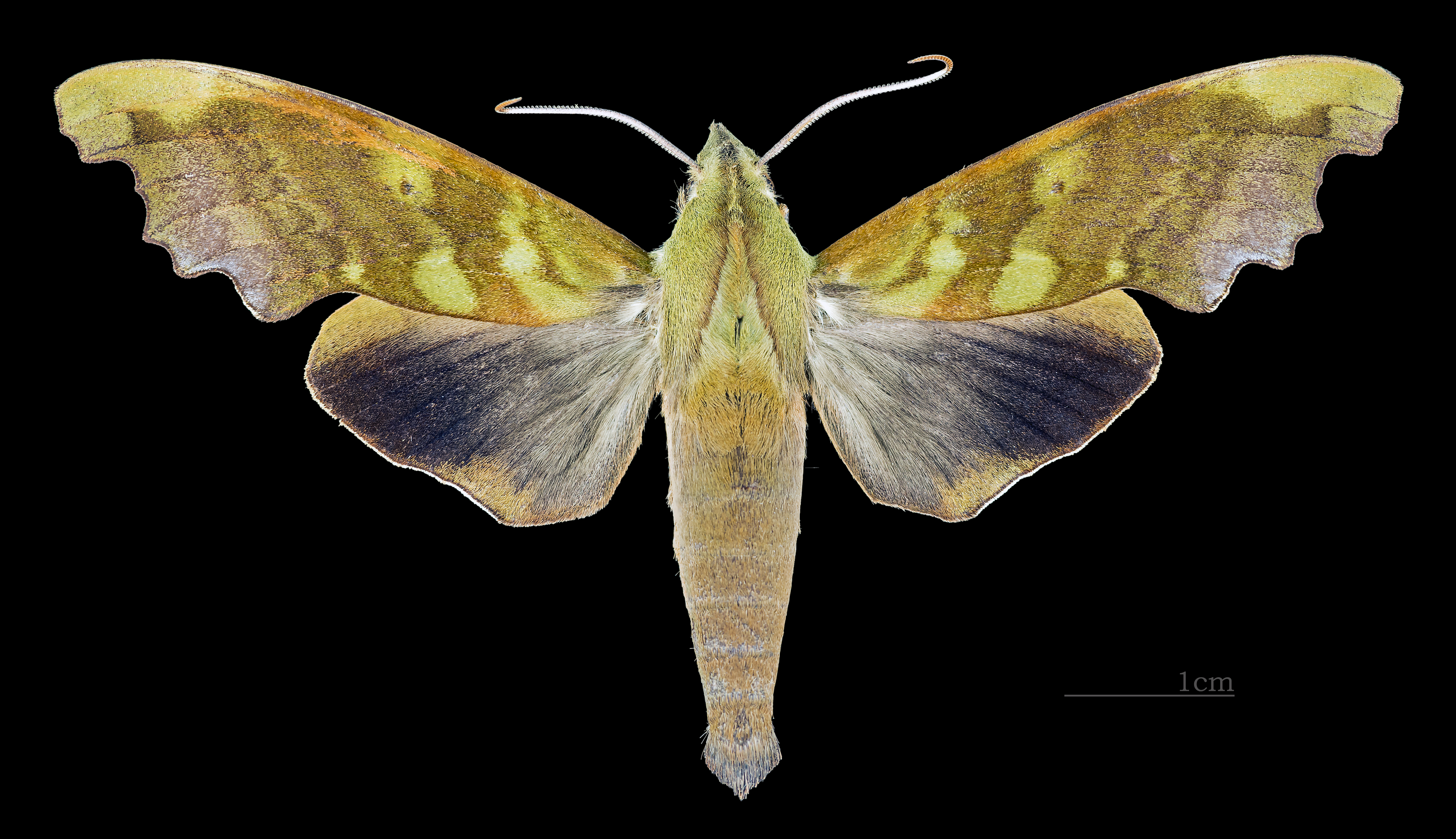 Stolidoptera tachasara - Dorsal side Collection of the Mathematician Laurent Schwartz